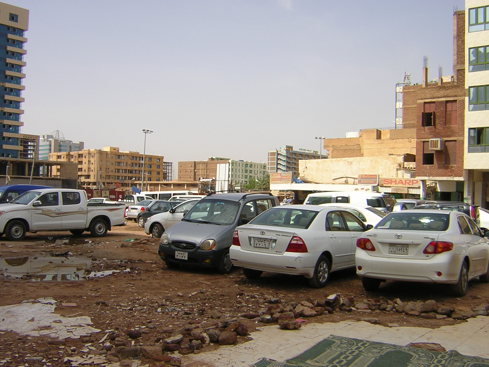 Street in Khartoum, Sudan.